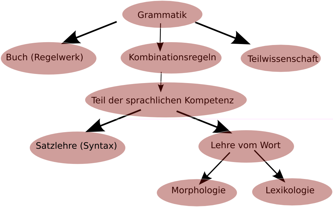 the structure of grammar